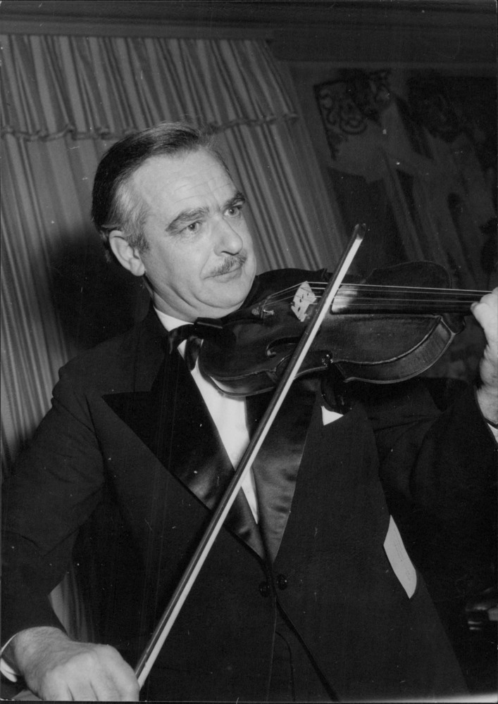 Bertil Almqvist (1902–1972) med fiol.